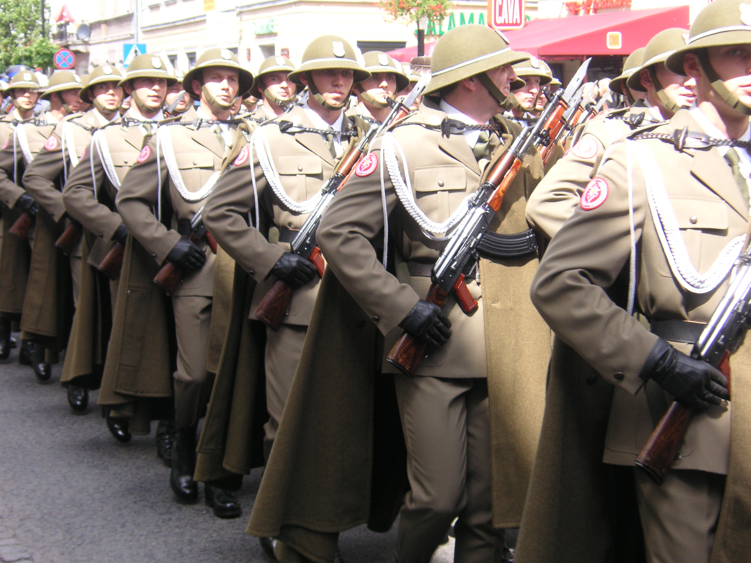 A military parade in Warsaw's Royal Road (Nowy Świat Street), commemorating the Feast of the Polish Army (August 15th) Podhale Rifles